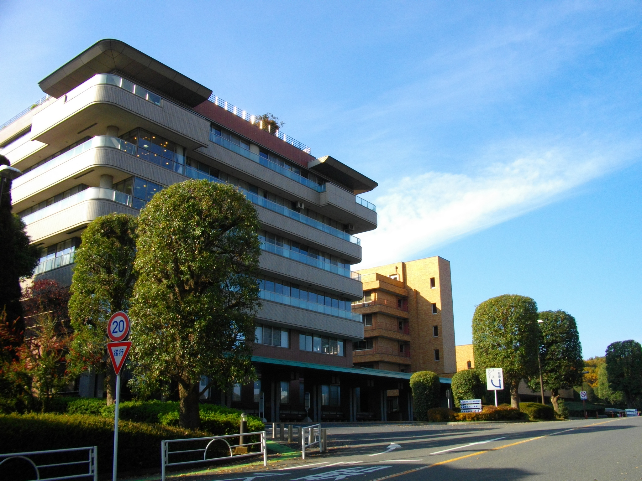 Saitama Cancer Center